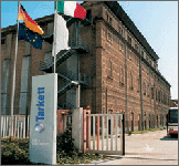 Tarkett factory in Narni (Italy)